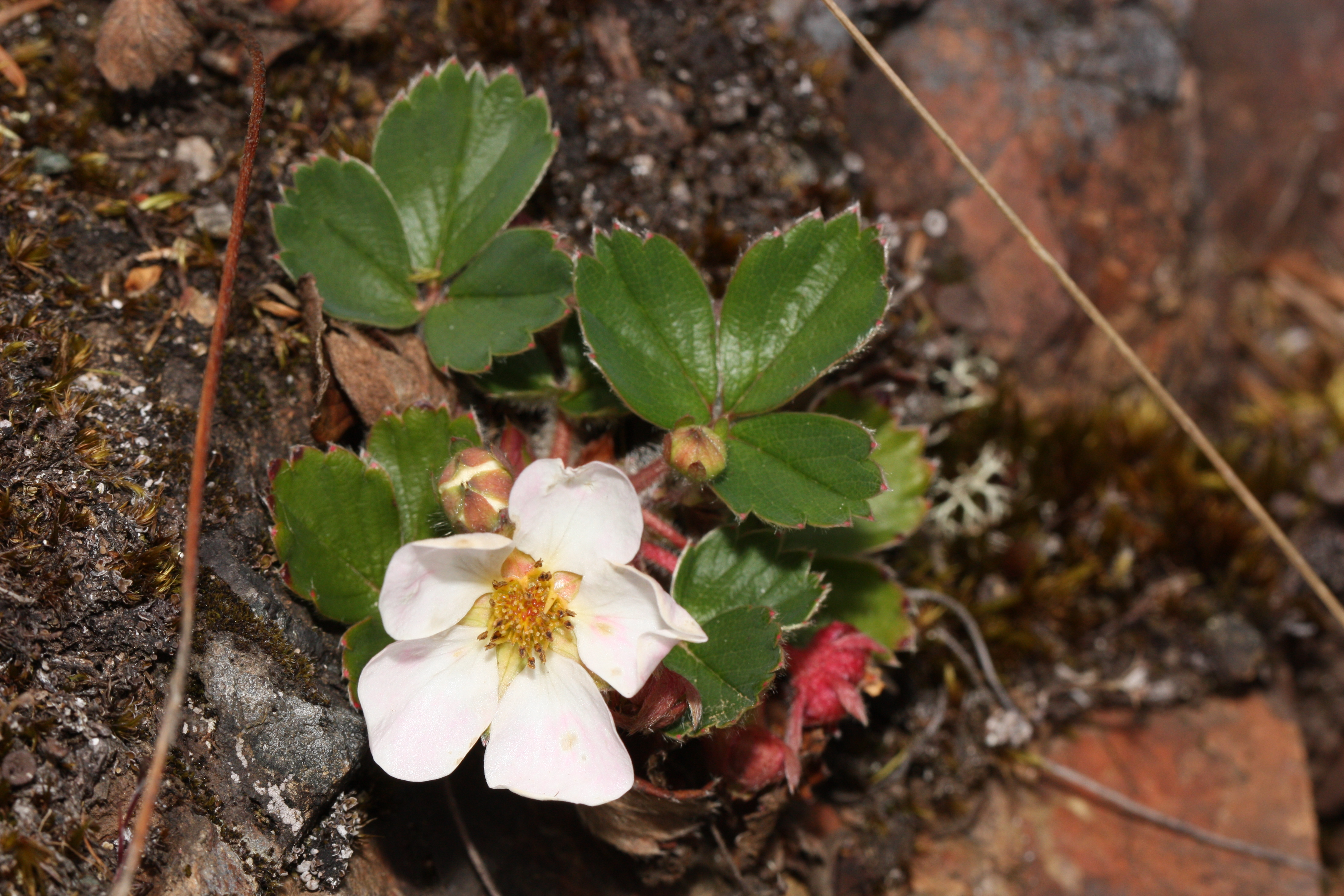 Virginia Strawberry, Blueleaf Strawberry Viewpoint location: Goose Rock Summit Trail, Deception Pass State Park Viewpoint elevation: 145 meter (476 ft) Location source: Google Earth Location Datum: WGS84